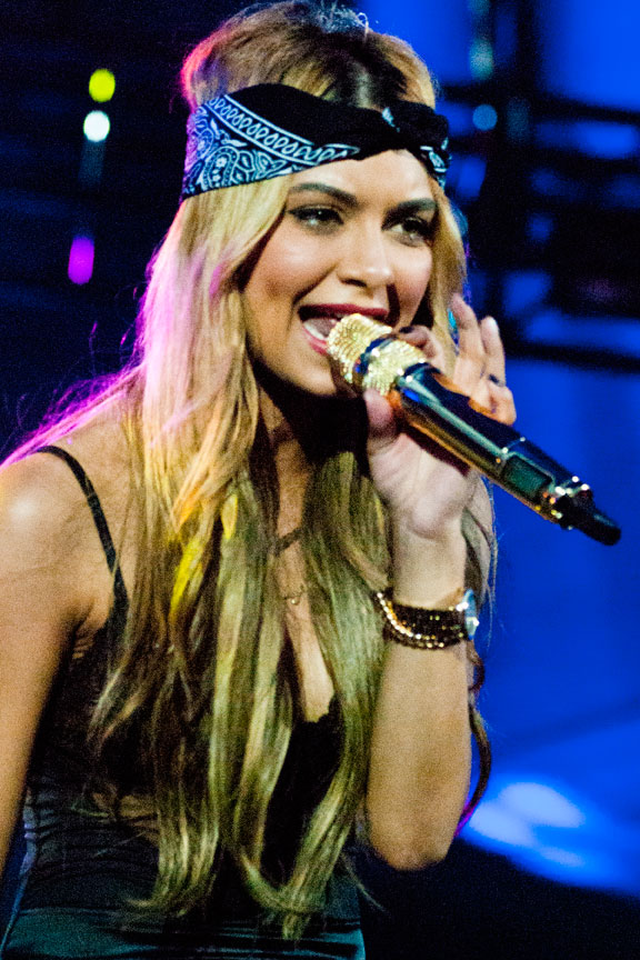 Havana Brown performs at B96 Summerbash on June 16, 2012. Toyota Park, Bridgeview, IL, USA. Photo by Adam Bielawski